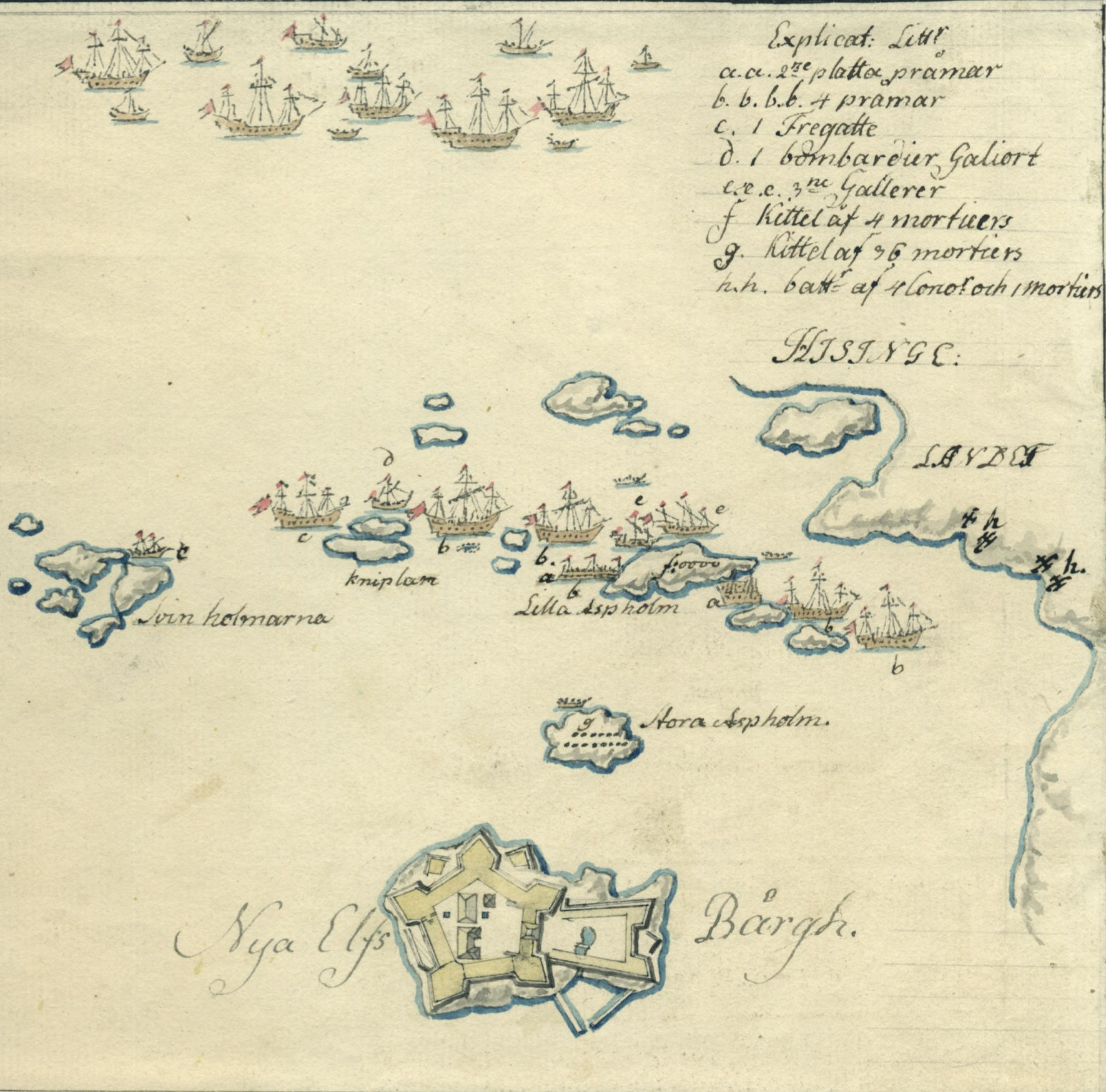 Drawing of the attack by Danish-Norwegian admiral Tordenskiold at the Swedish fortress Nya Älvsborg in Gothenburg harbour 20th July 1719.